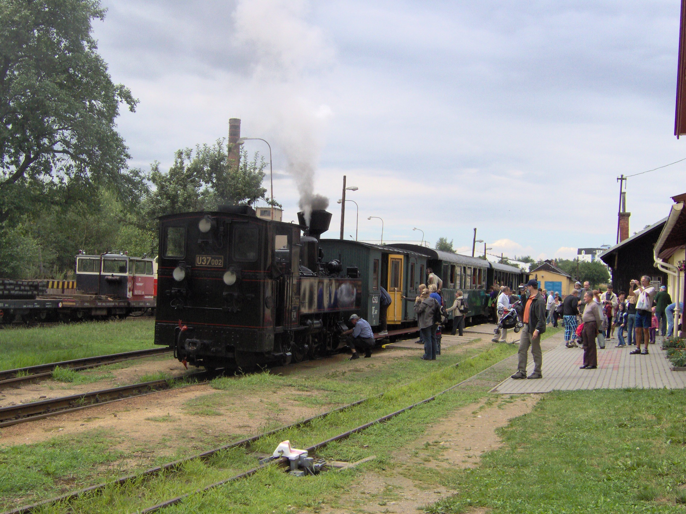 JHMD train with U 37.002 steam locomotive, Kamenice nad Lipou, Pelhřimov District, Czech Republic